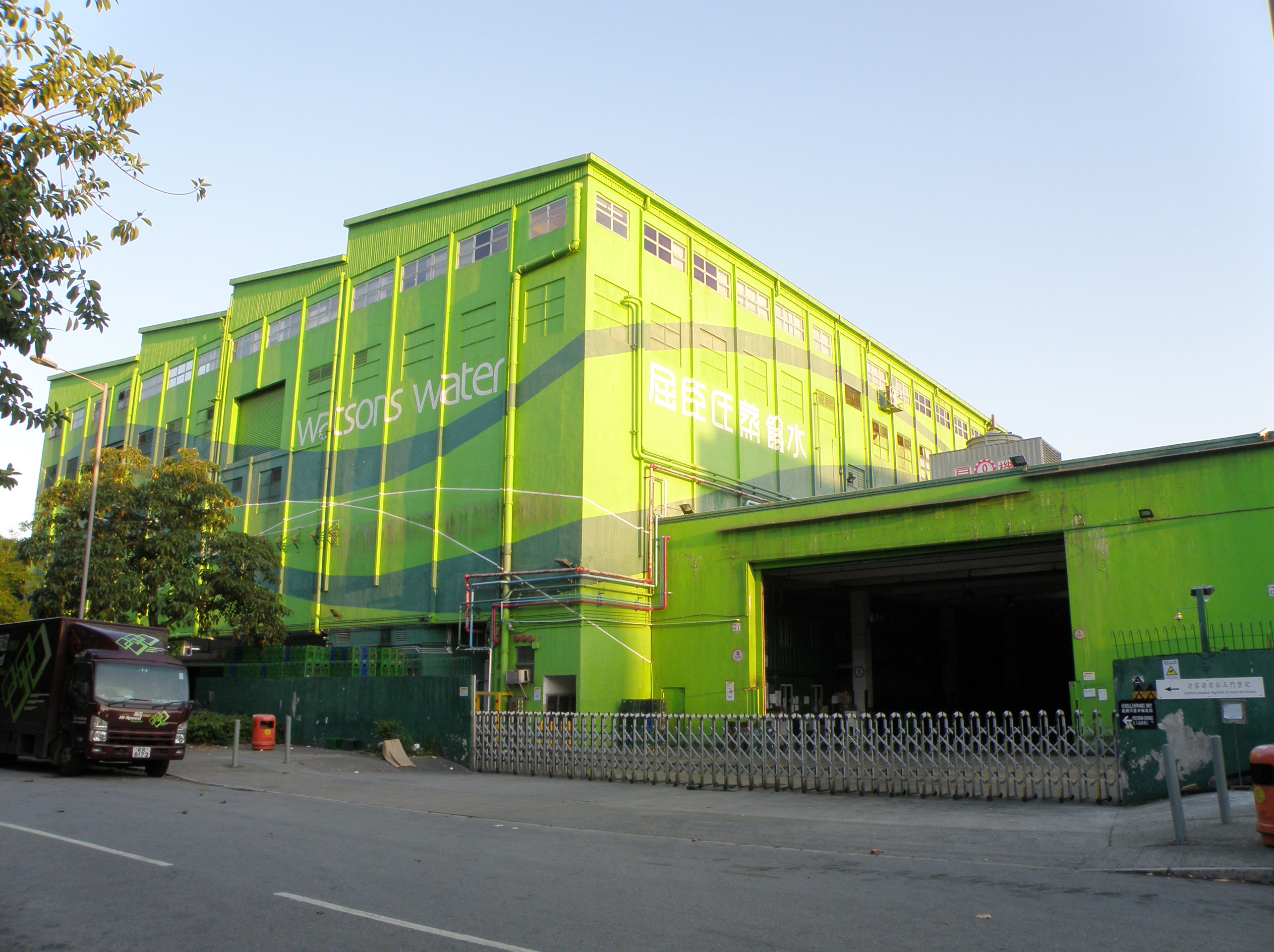 Watsons Water Centre in Tai Po, Hong Kong.